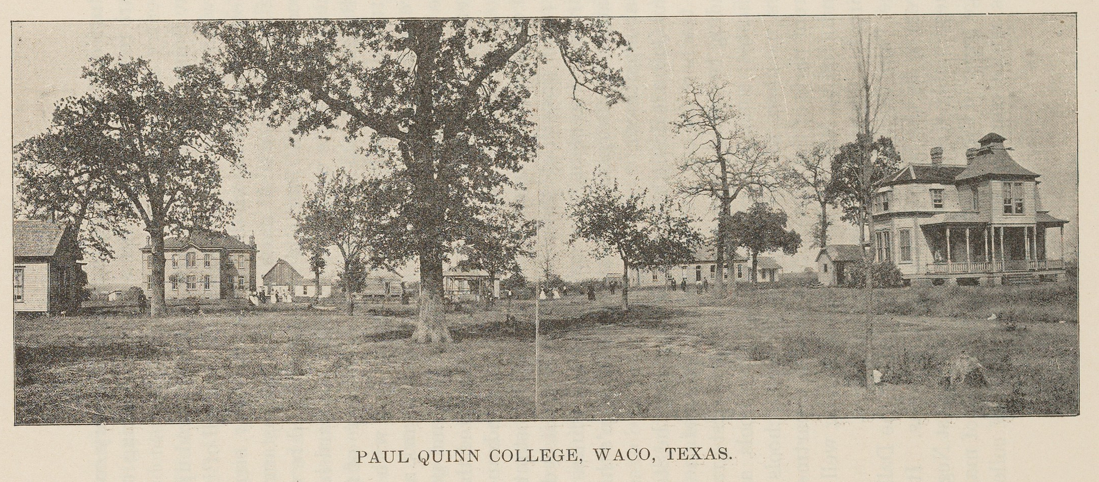 Photo of Paul Quinn College, Waco, TX, circa 1898 as published in vol1, issue 1 of The educator.